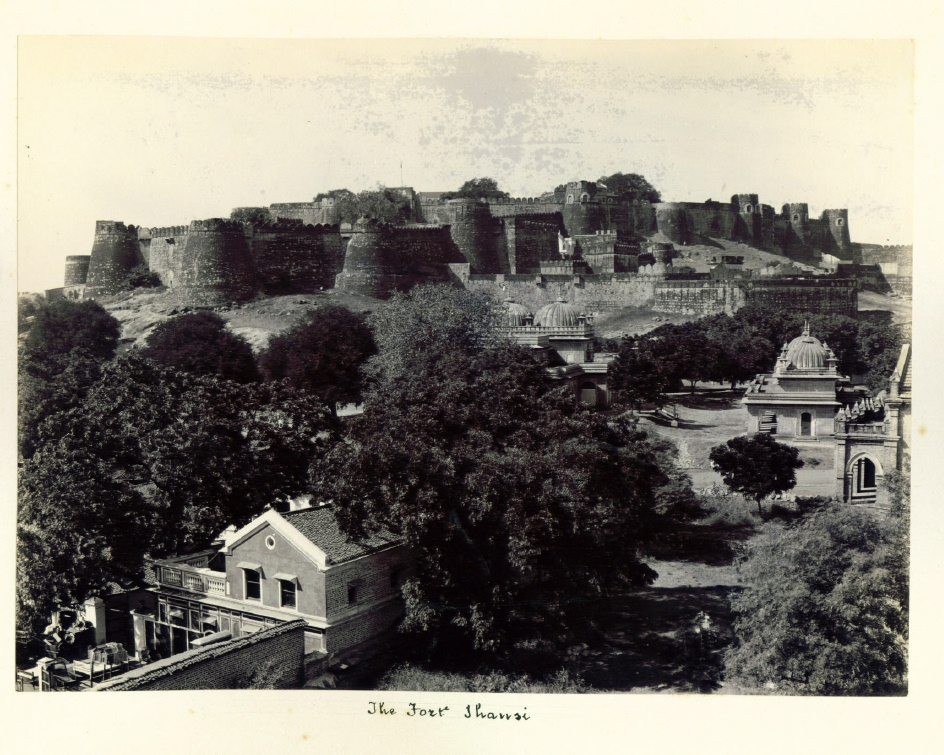 The Fort, Jhansi. A gelatin silver photo taken in 1900.